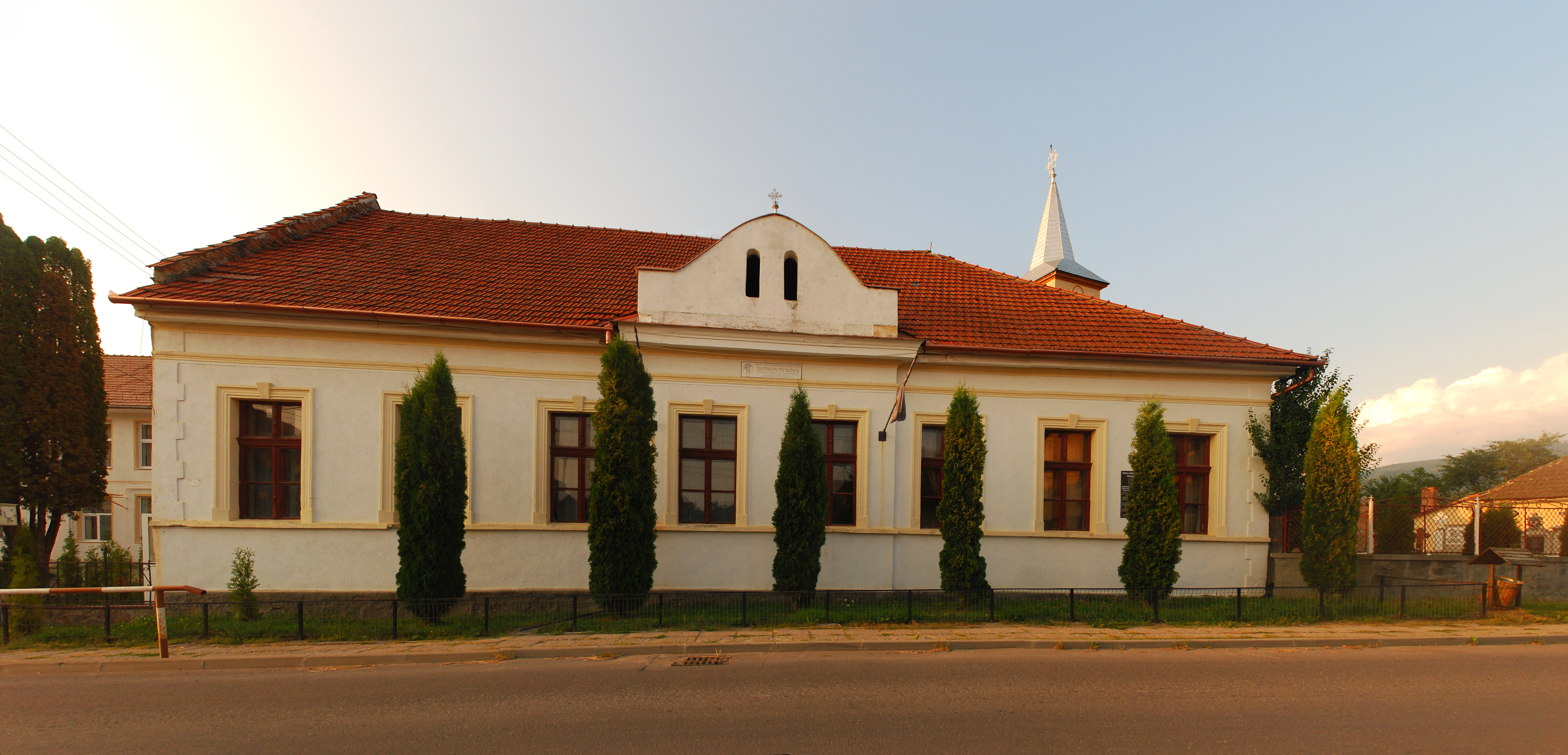 Former Voinești schoolhouse in Covasna, Covasna County, Romania